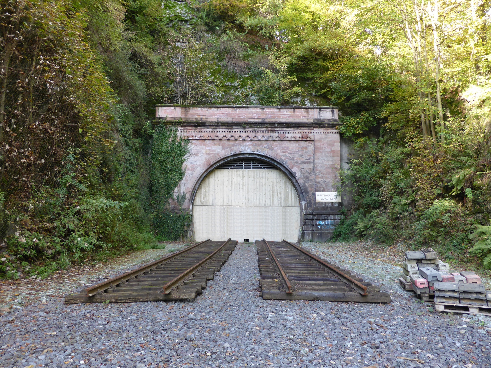 Southern entrance of the old Eppstein tunnel at the Main-Lahn Railway after its closing and the opening of the new tunnel 2013